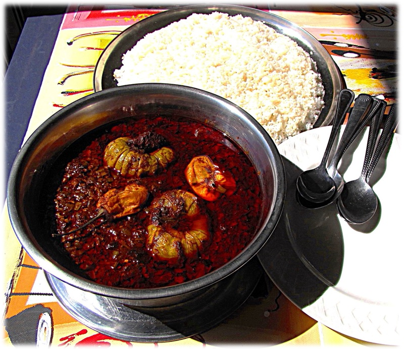 Soupou kandja/kandje okra stew with beef and garnished with capsicum and African eggplant, Solanum aethiopicum, served with rice This is an image of food from Senegal